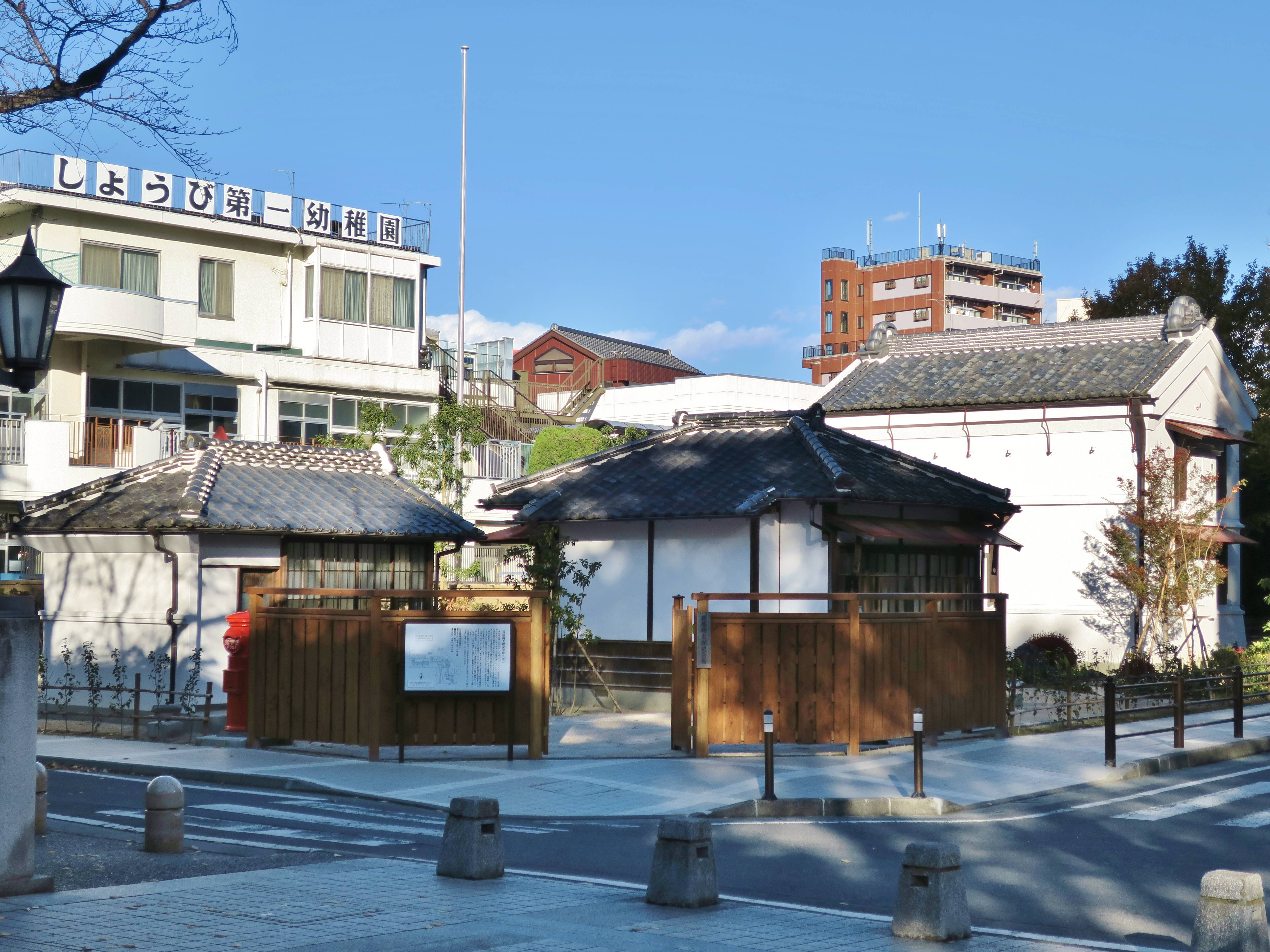 Maebashi City Museum of Literature Hagiwara Sakutaro Memorial.